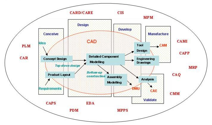 Created from image on Computer-aided design Created from image on Computer-aided design